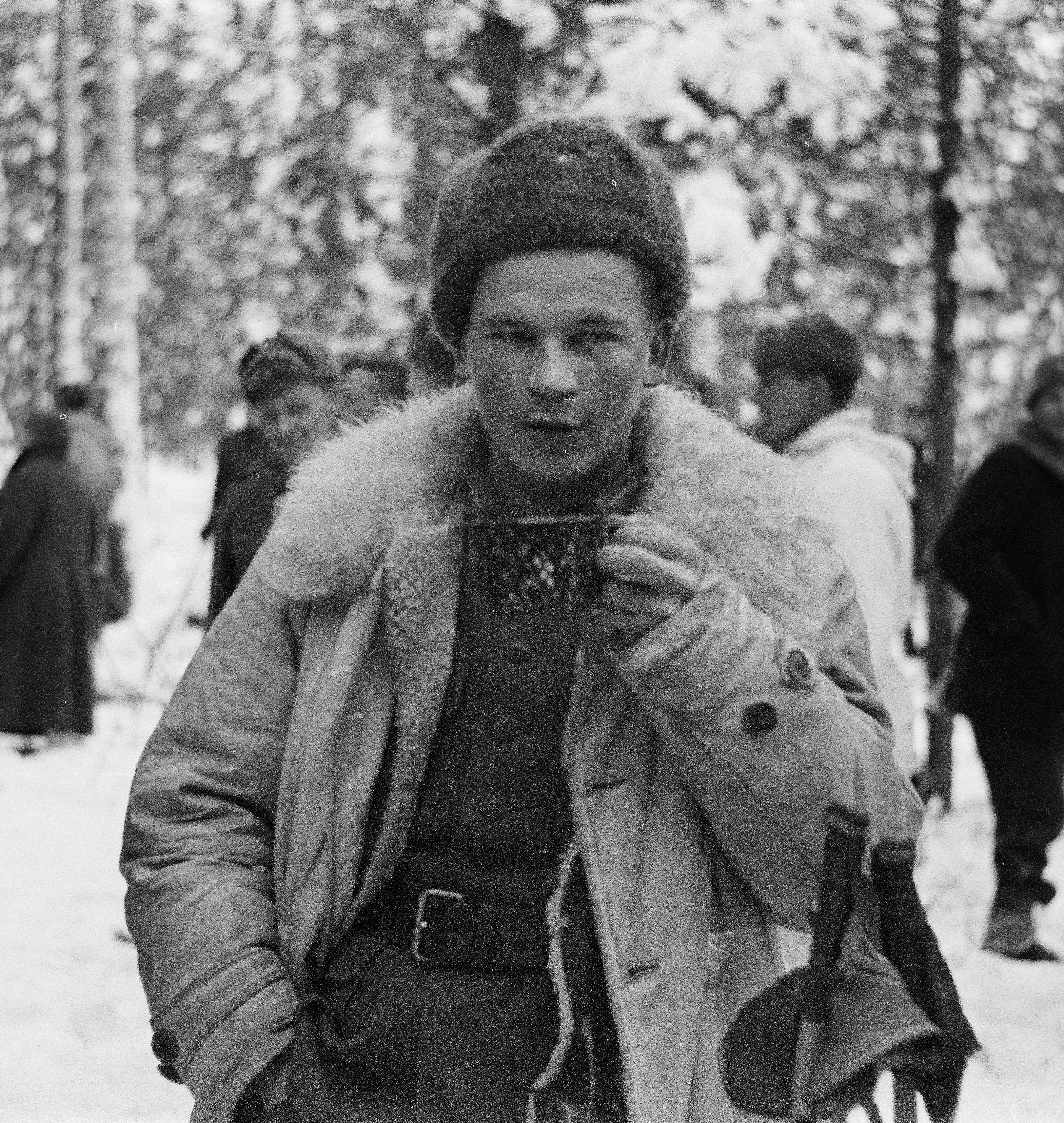 Photograph of the Finnish writer Onni Palaste né Bovellán (1917–2009) during World War II, after winnig a skiing competition.